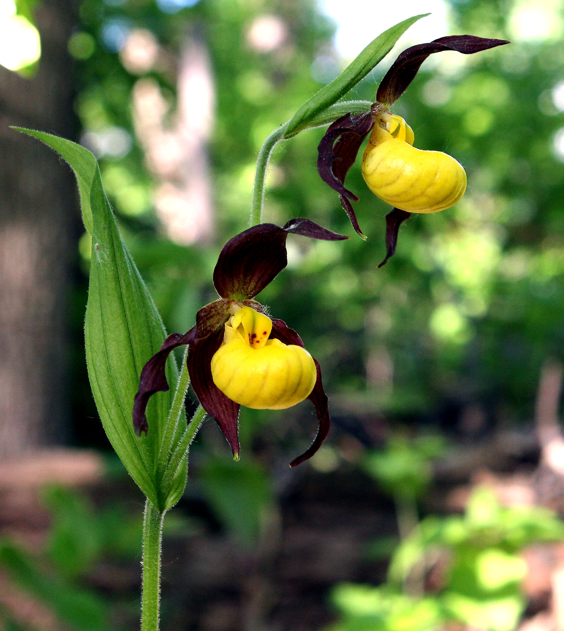 Self made picture of Yellow lady slipper, taken in Minnesota late spring of 2008.